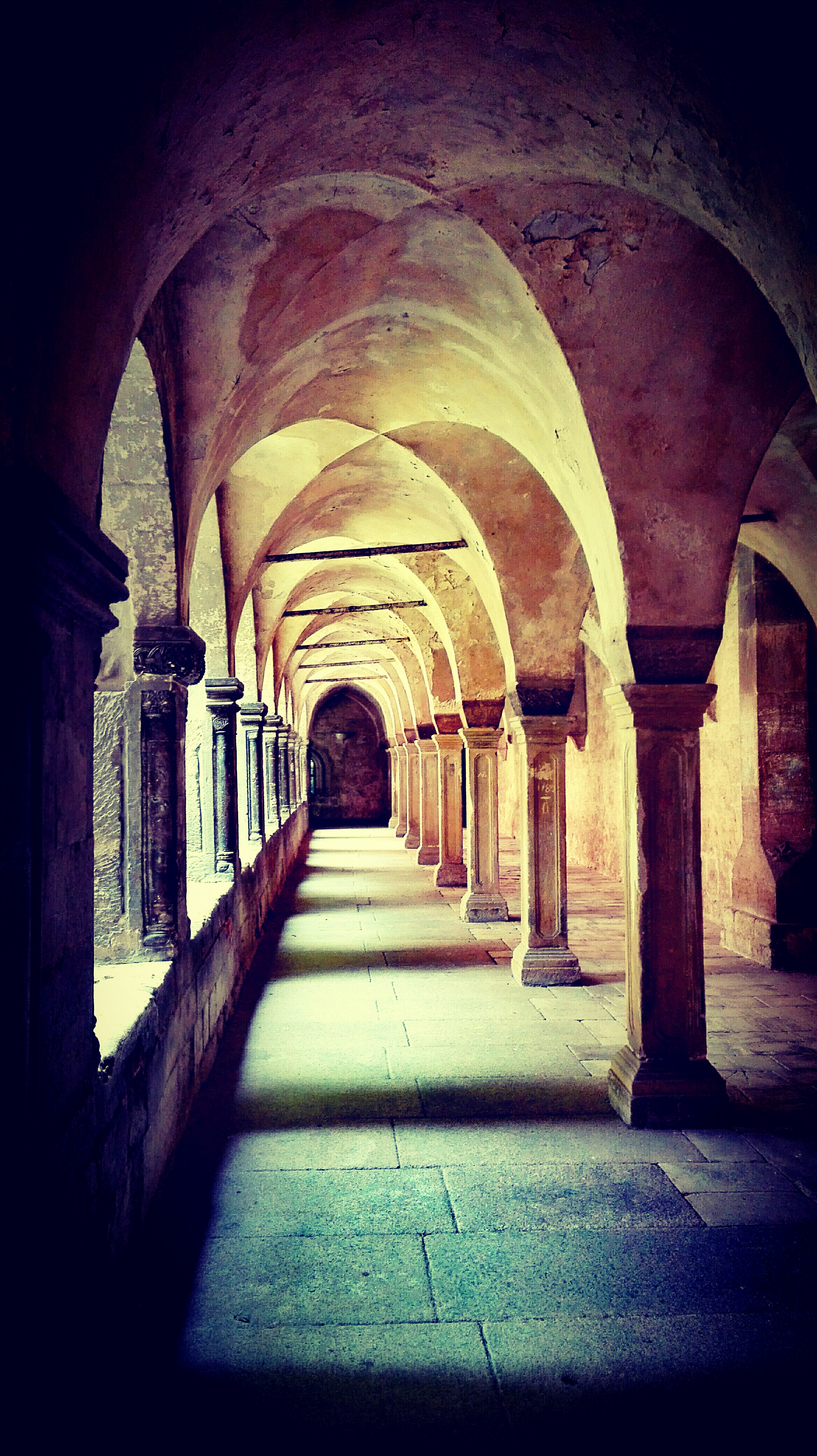 cloisters south aisle, view to the east